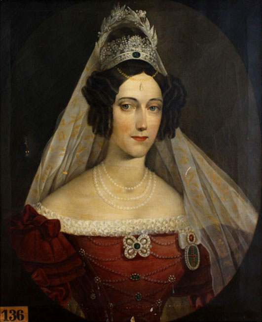 Maria Anna of Savoy